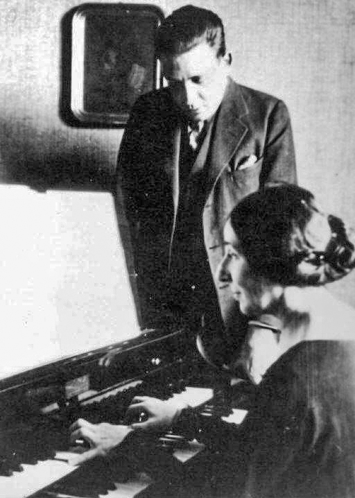 French composer Francis Poulenc (1899-1963) and Polish, naturalized French citizen, harpsichordist Wanda Landowska (1879-1959)